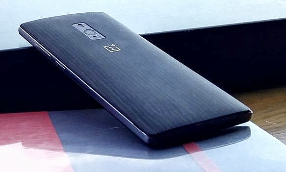 I got to take some pictures of a @oneplustech 2 at their Shenzhen office today. View from terrace is Hong Kong. #oneplus #neversettle #china #shenzhen #BobAndMatInAPAC #android